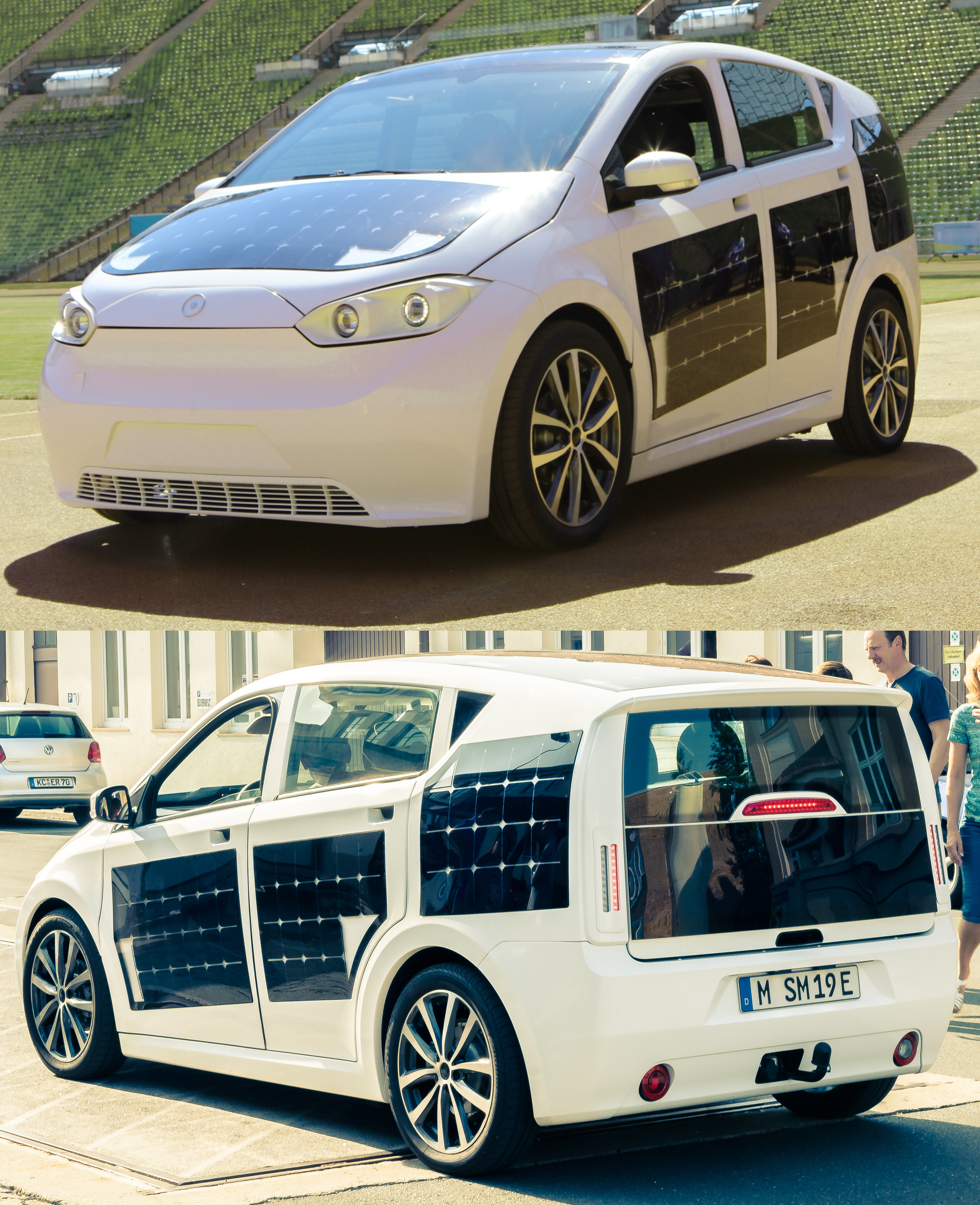 Sono Sion front and back, 2017